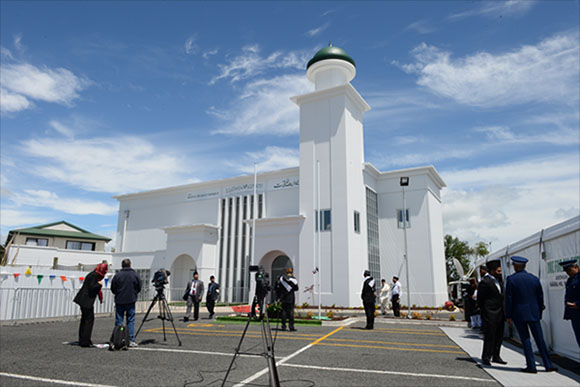 Baitul Muqueet Mosque, Auckland